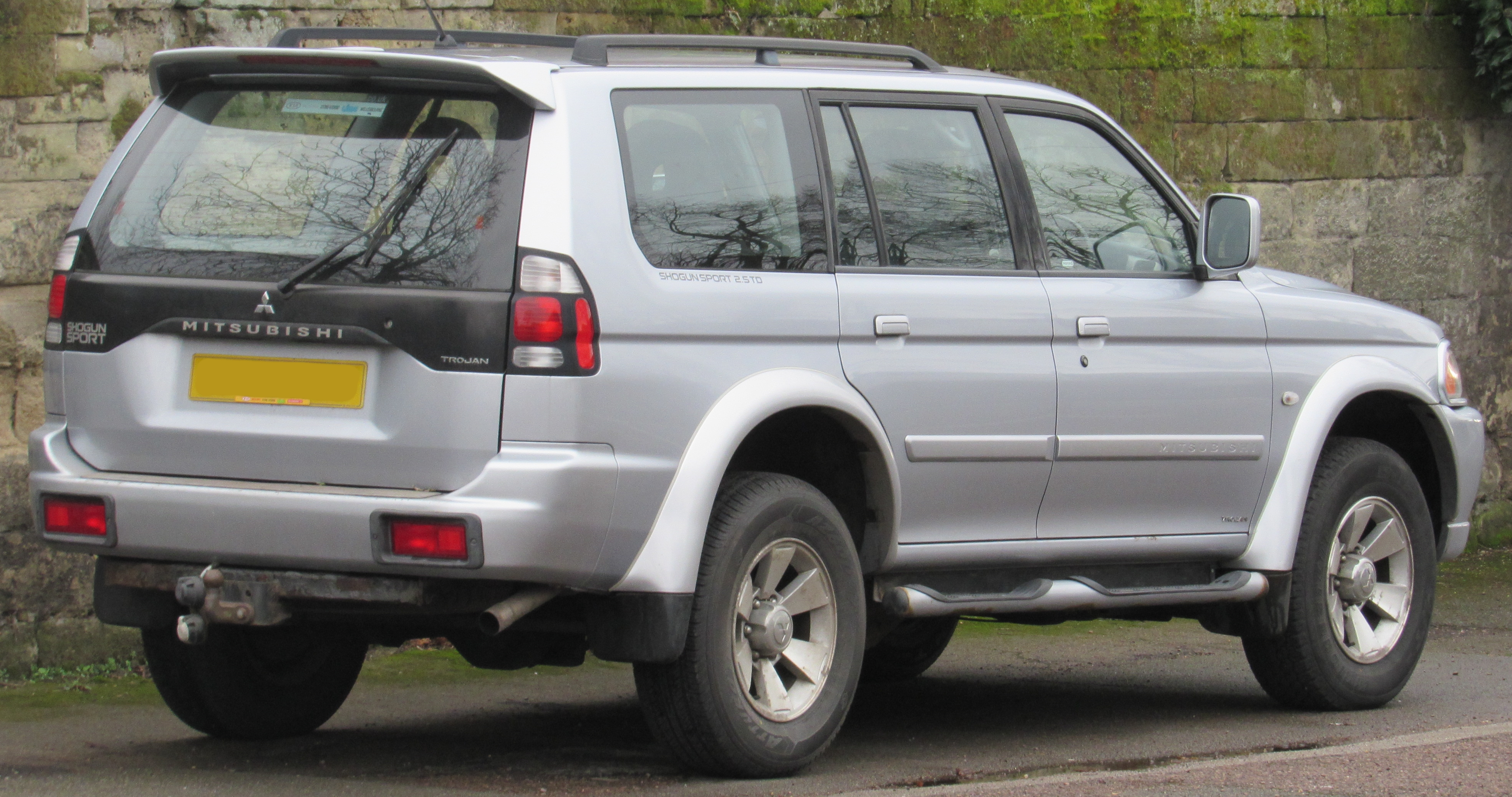 2006 Mitsubishi Shogun Sport Trojan 2.5 Rear Taken in Warwick